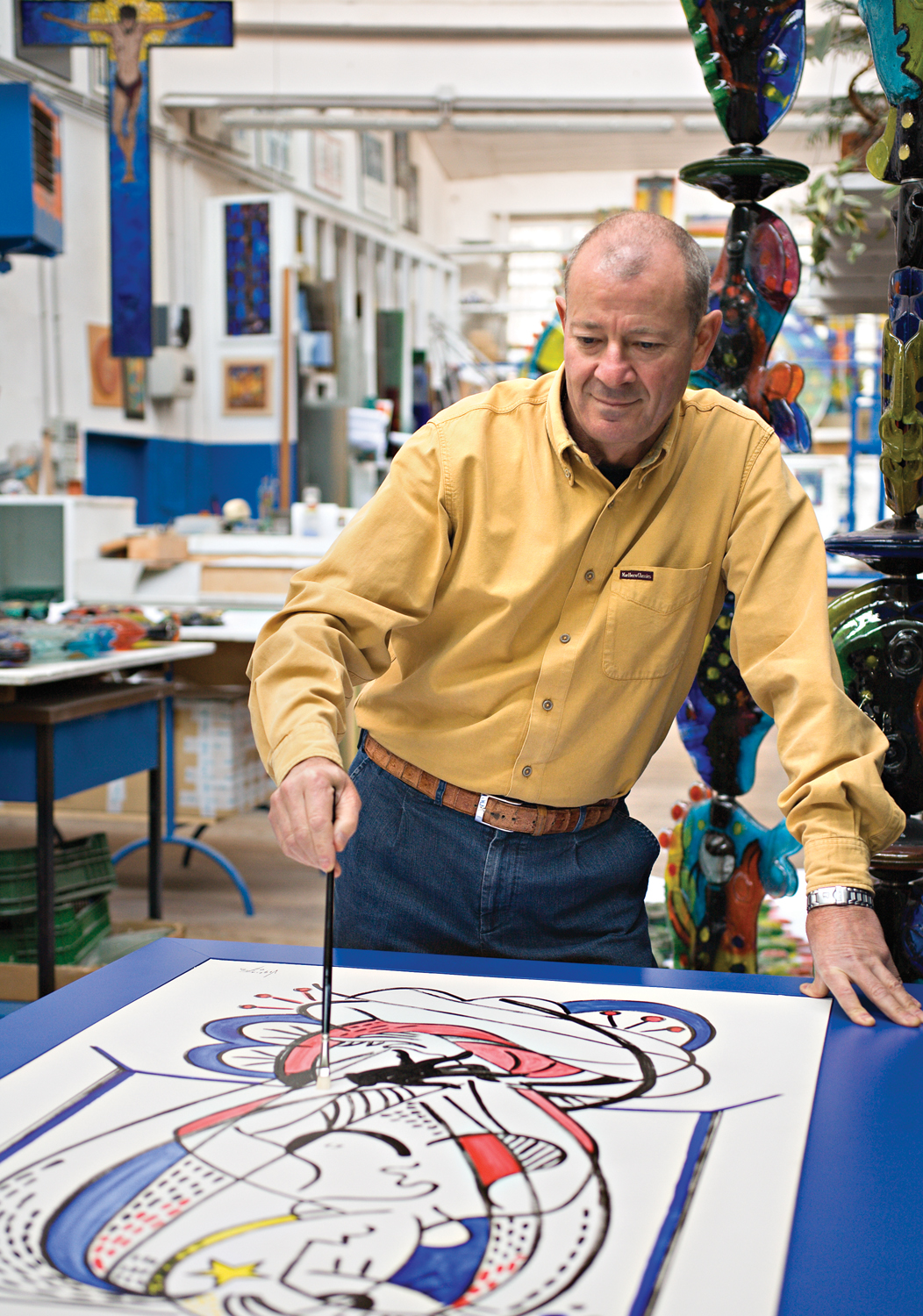 Picture of the artist painting in his studio in Chieri (To), Italy.